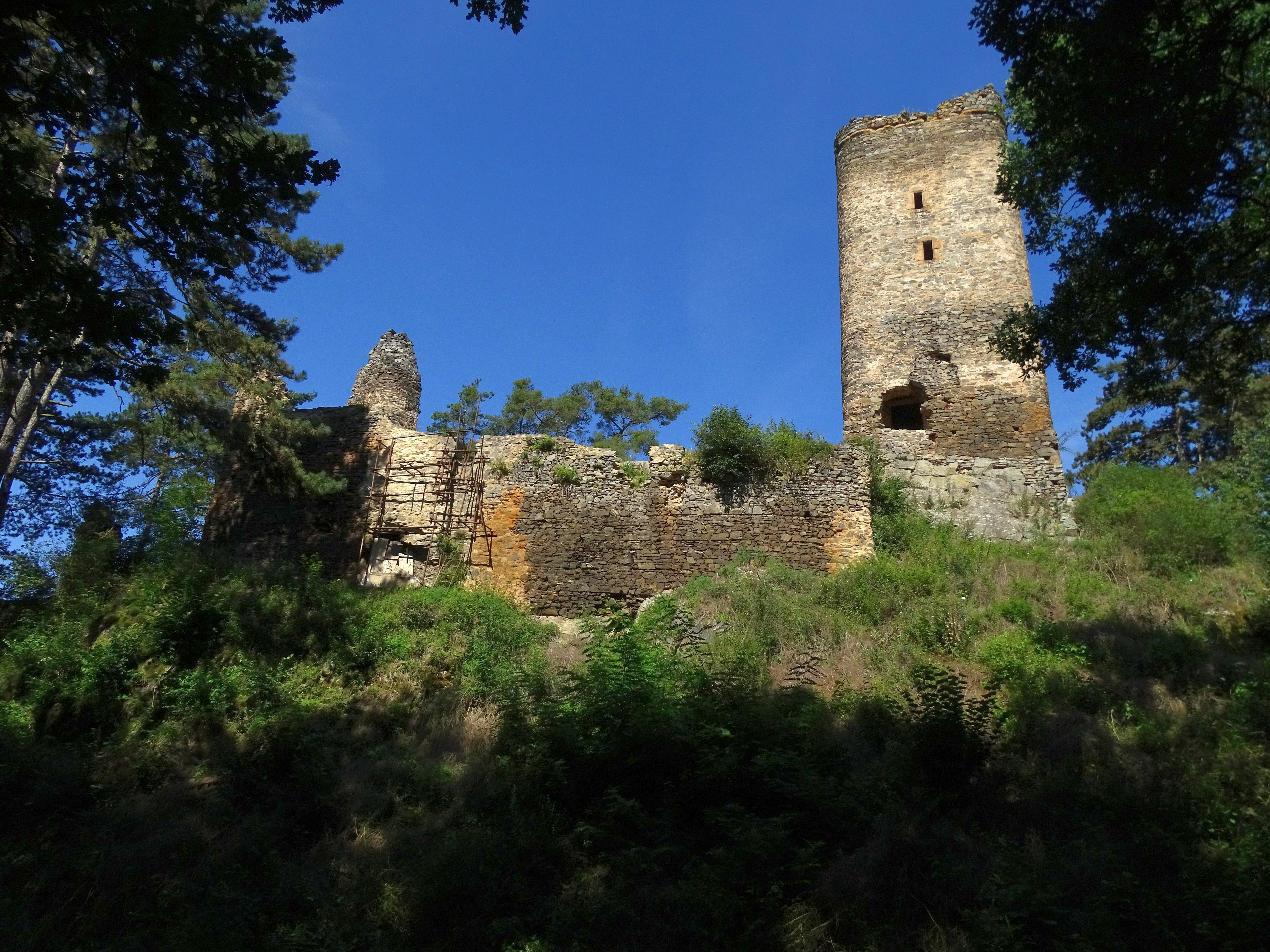 Liblín, Rokycany District, Plzeň Region, Czechia. Libštejn Castle.